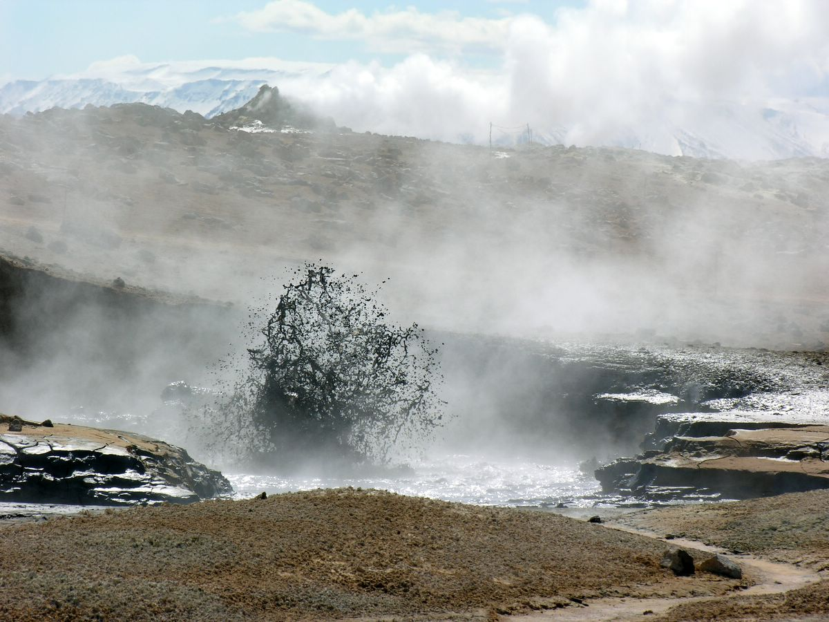 Iceland, Námafjall